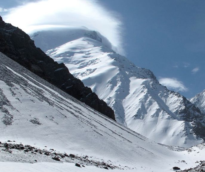 Mount Noshaq seen from the base camp (photo by Louis Meunier, July 2009) (cropped)